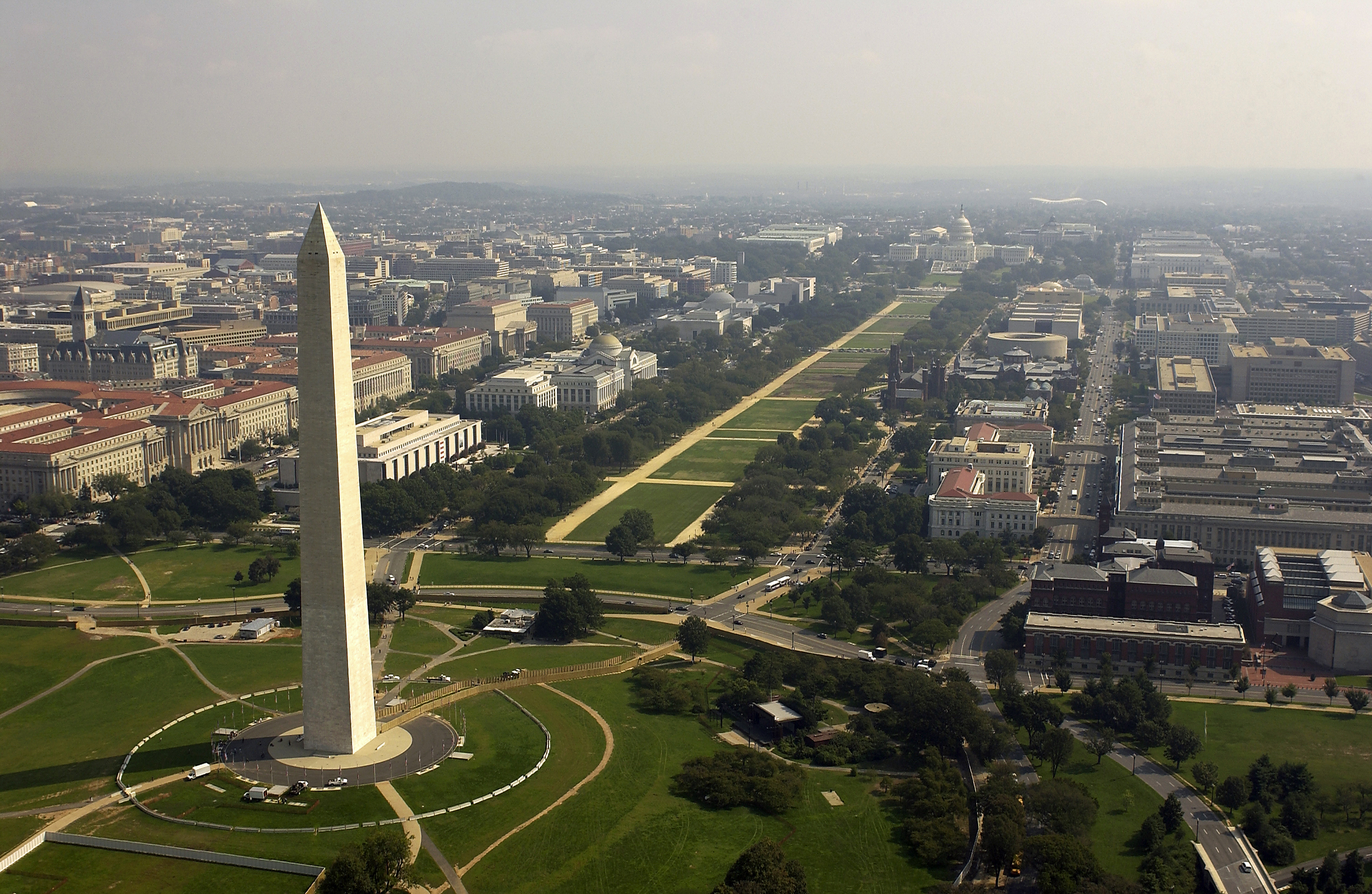 Washington, D.C. (Sept. 26, 2003) -- Aerial view of the Washington Monument with the Capitol in the background. DoD photo by Tech. Sgt. Andy Dunaway. (RELEASED)